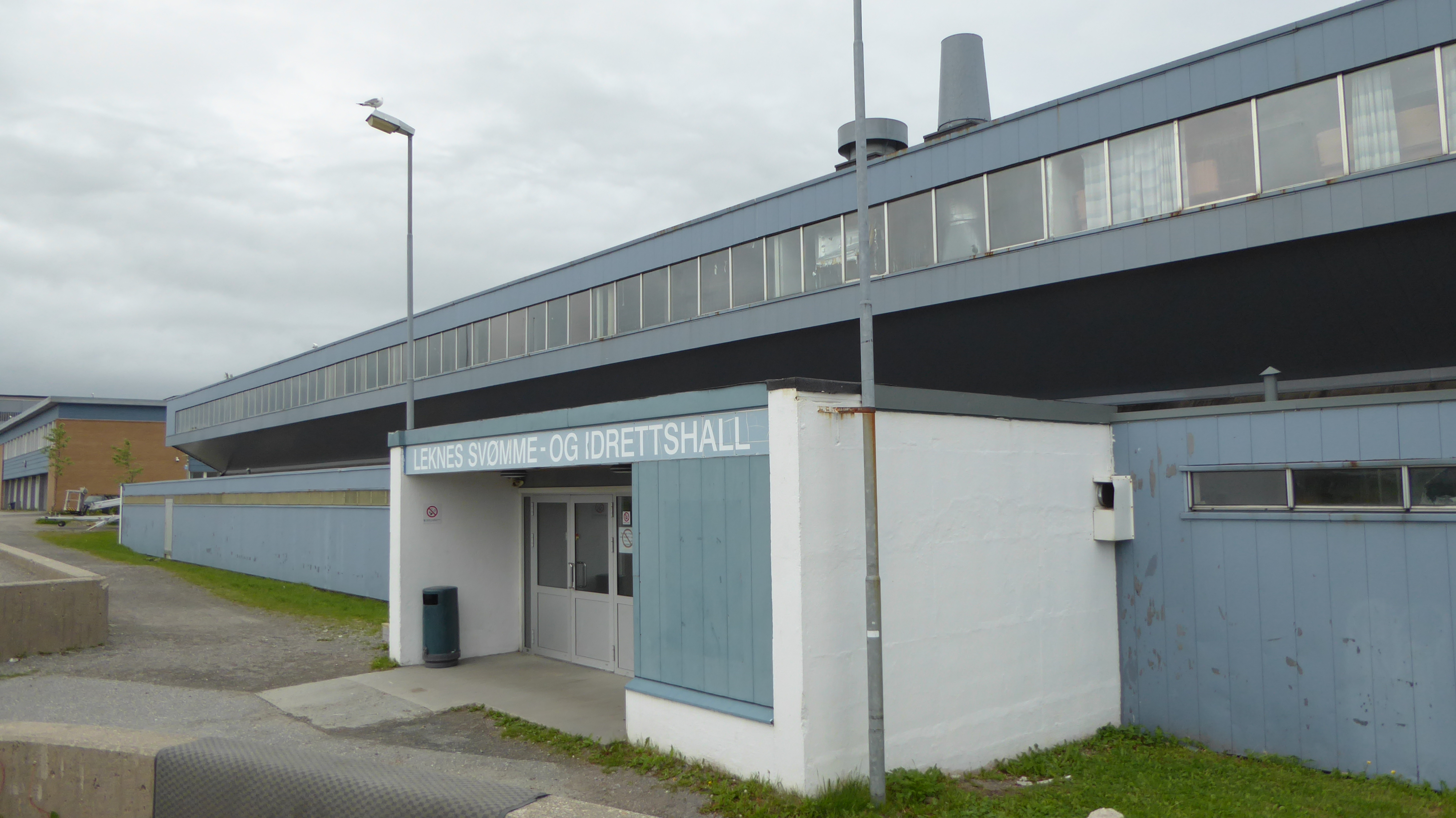 Public swimming pool and sports center in Leknes, Lofoten, Norway